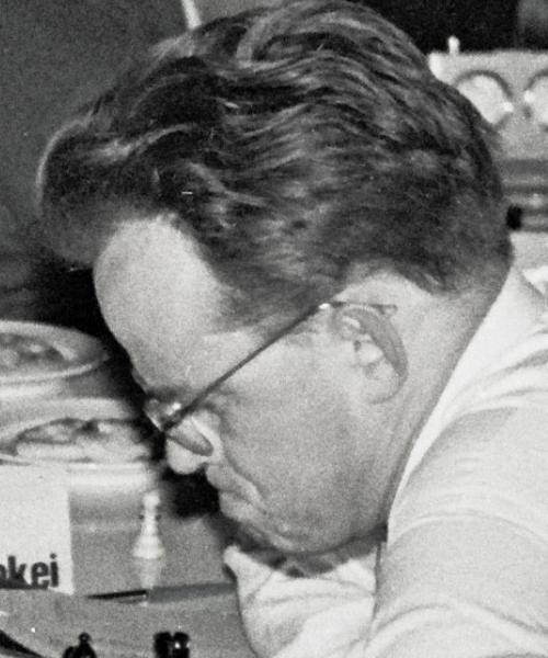 Luděk Pachman, European Championship 1961 at Oberhausen, Photographer Gerhard Hund.